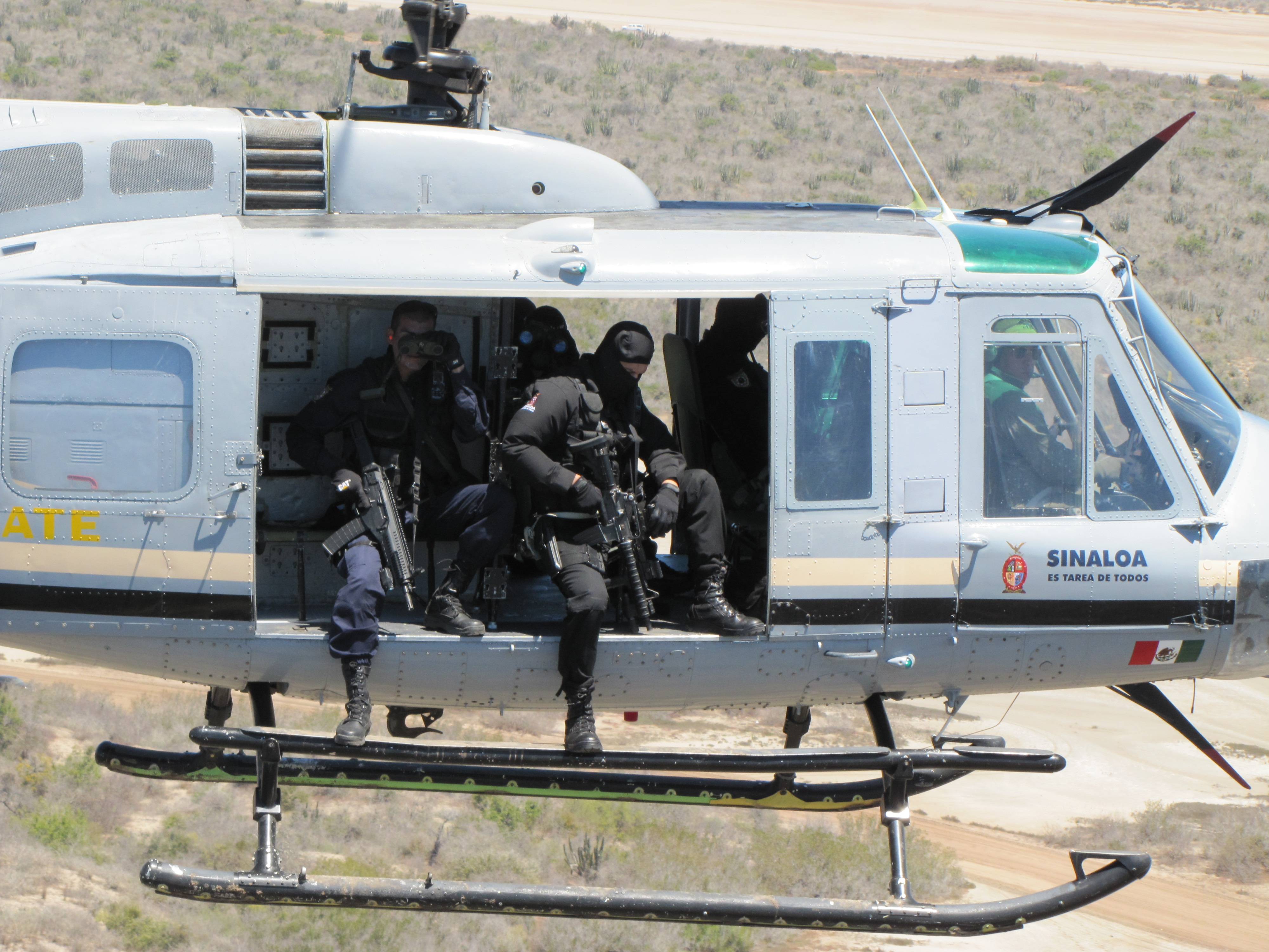 The "Policia Ministerial de Sinaloa" counts on with 6 helicopters in order to cooperate with the GOPES (Special Operations Group) missions.